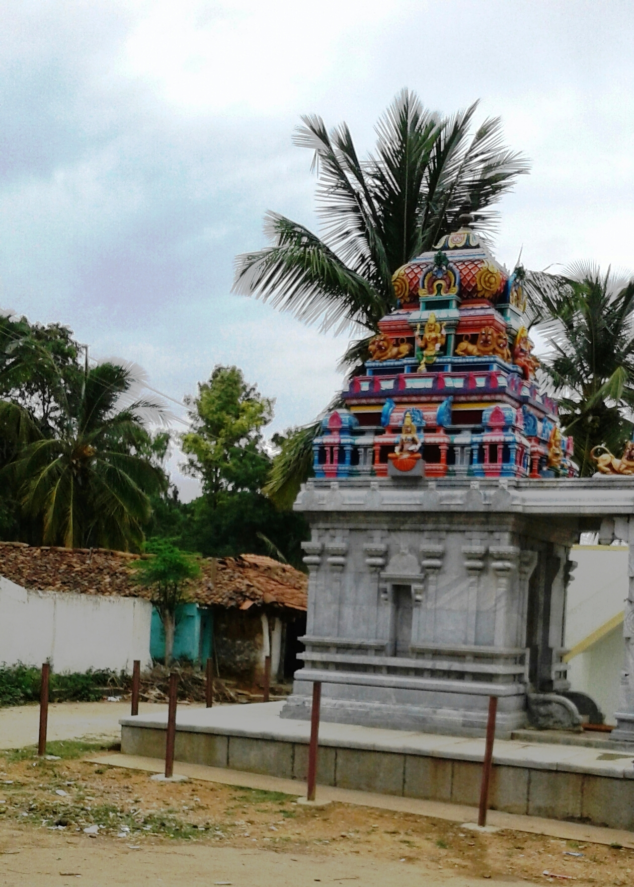 Melukote Hills, Mandya district, Karnataka state, India.